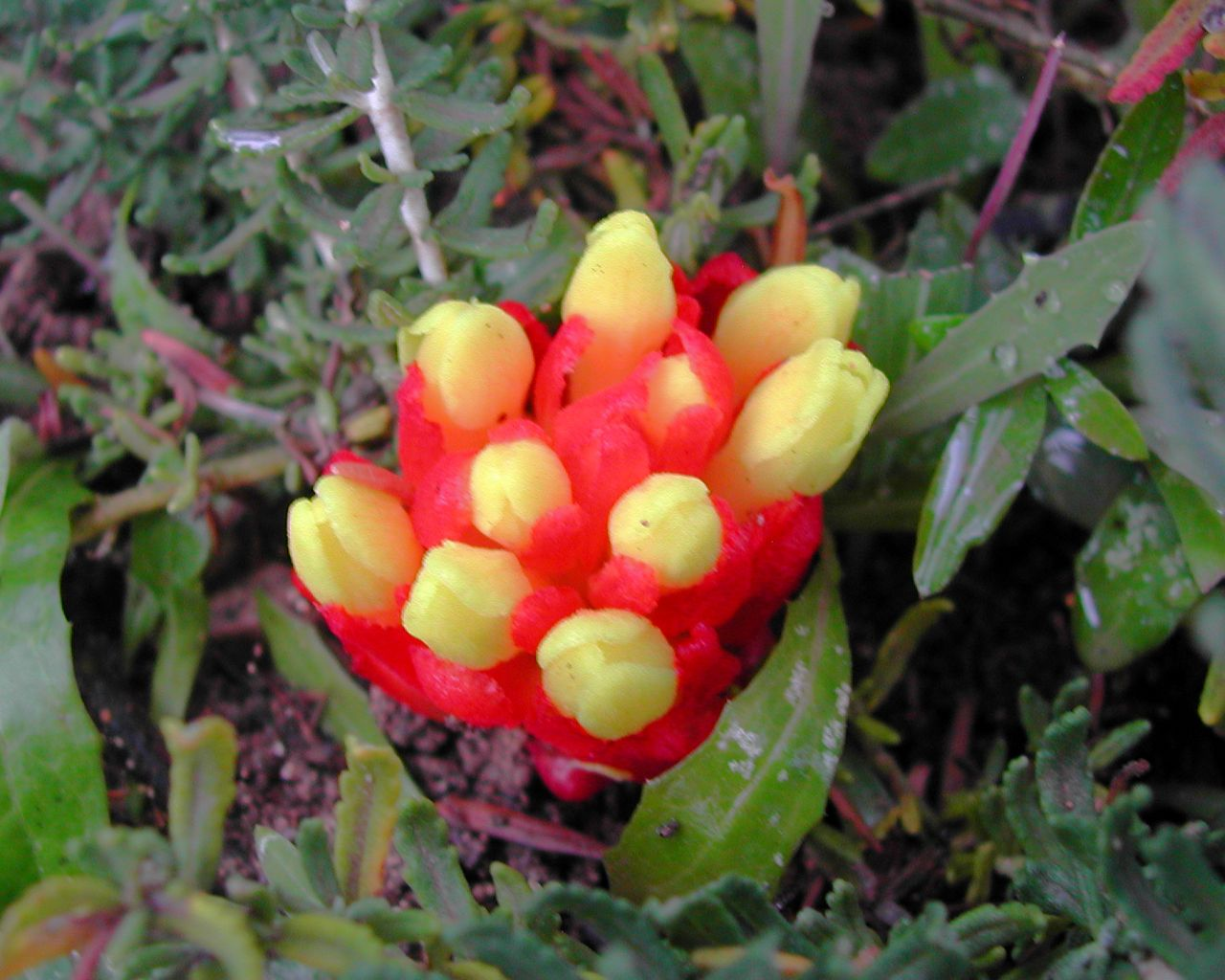 Cytinus hypocistis